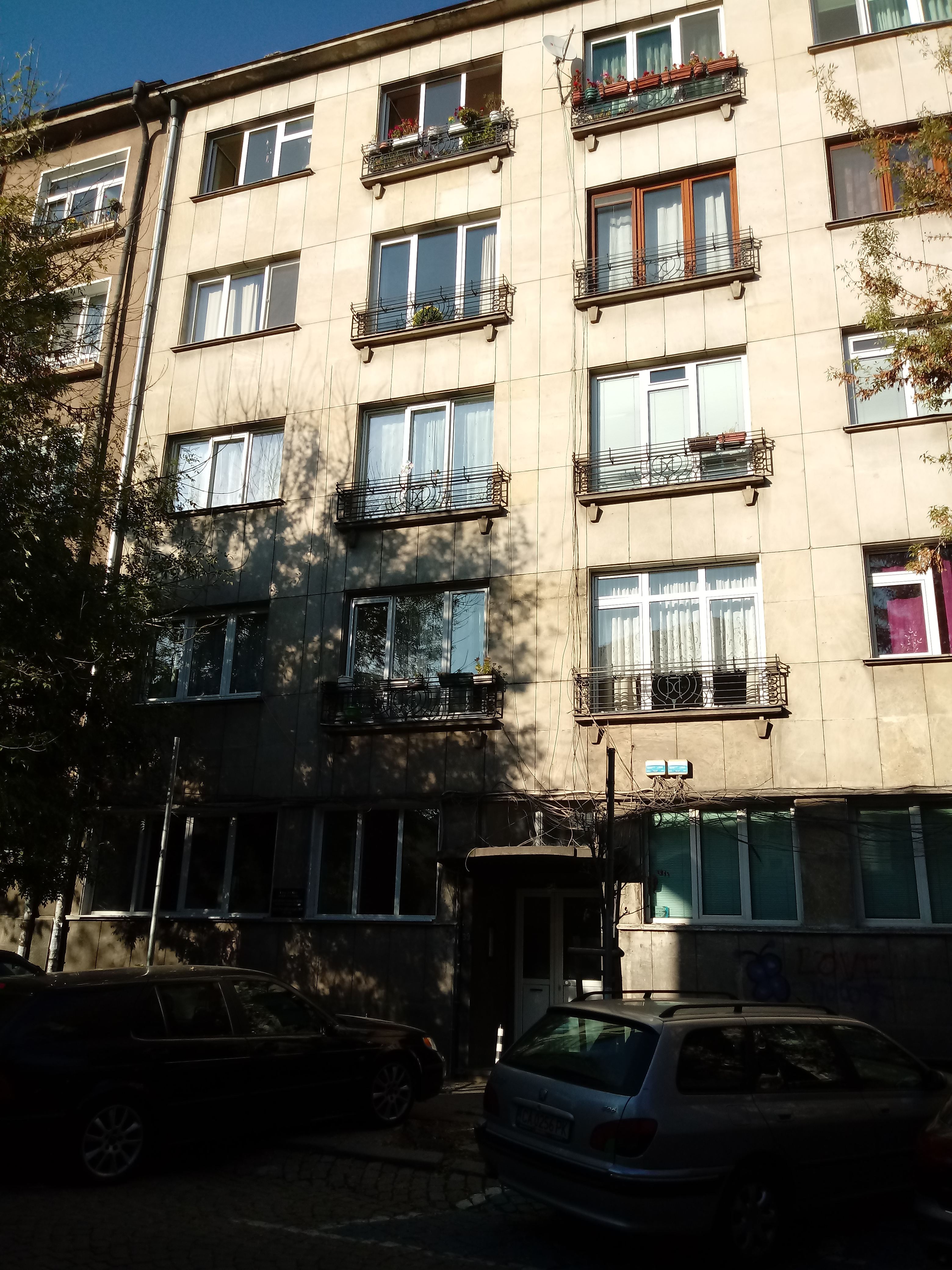 Angel Manolov home with memorial plaque, 39 Shipka str., Sofia